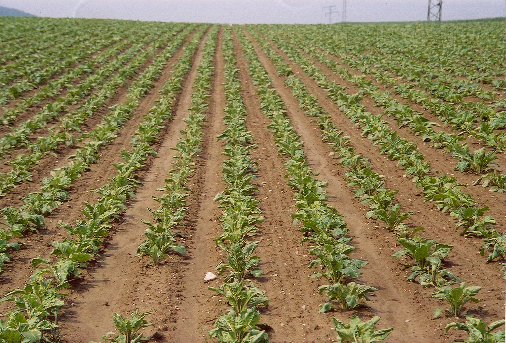 Sugar beet field, canton of Bern, Switzerland